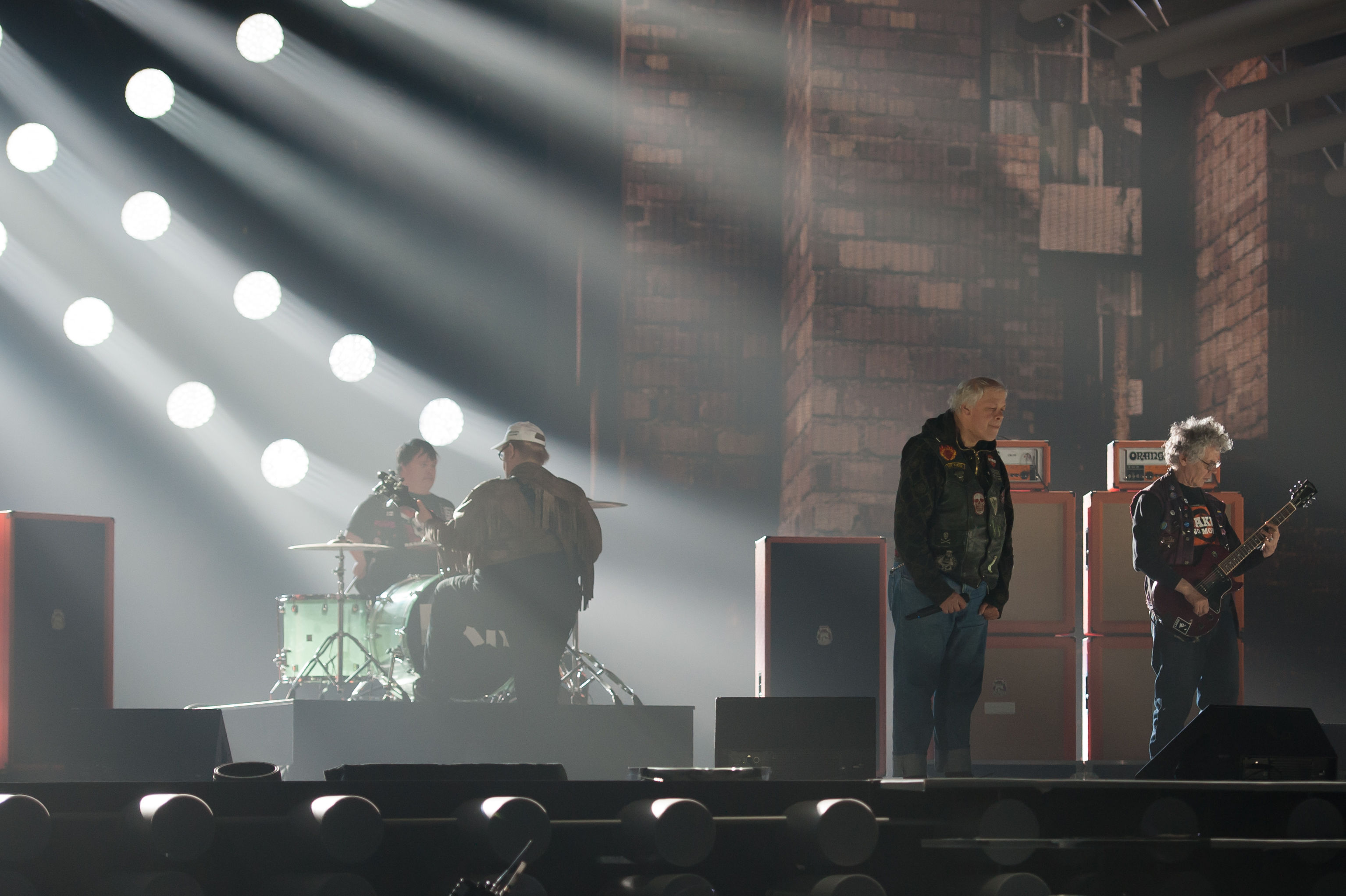 Eurovision Song Contest Vienna 2015: Pertti Kurikan Nimipäivät